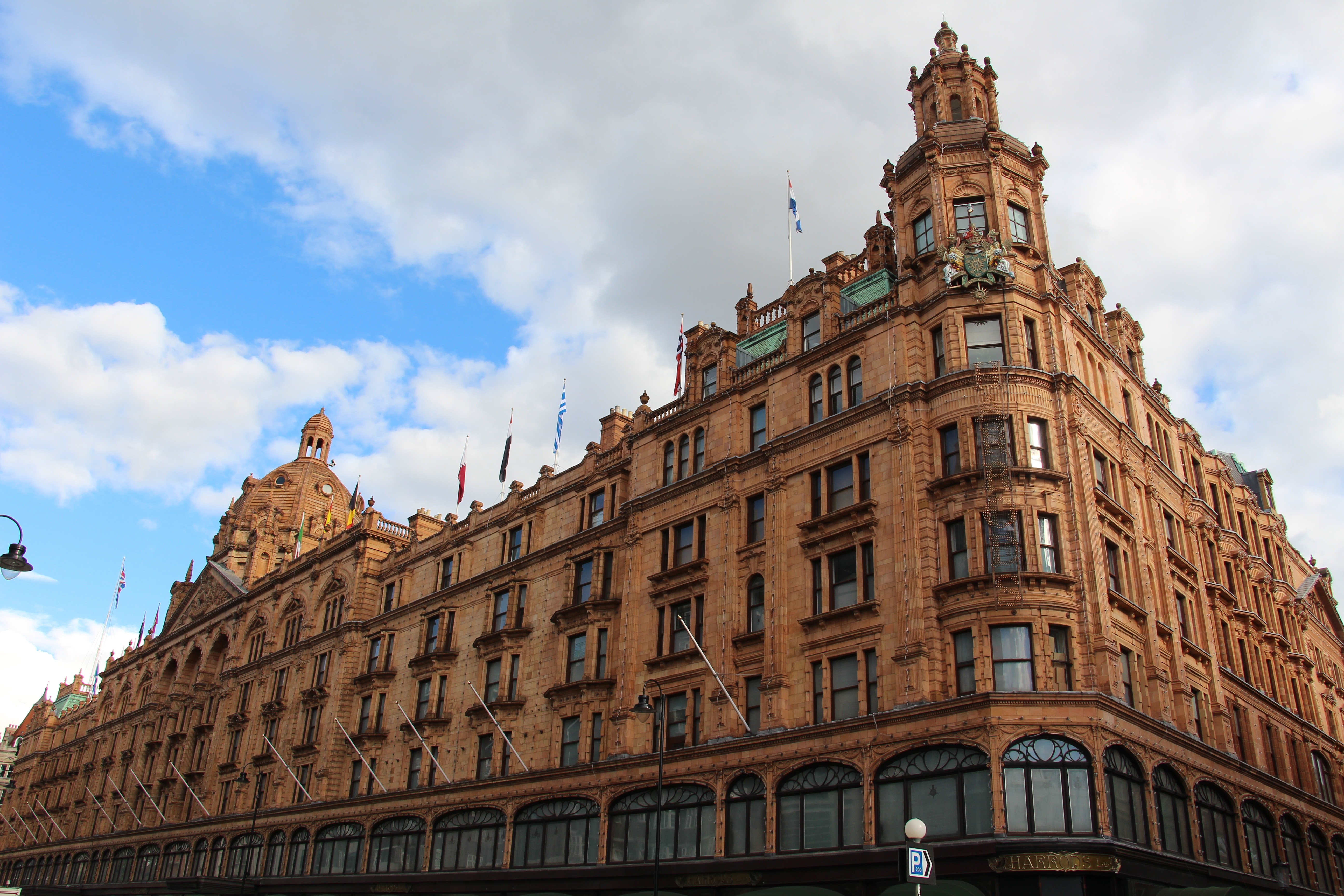 Brompton Road Harrods is a luxury department store. Arch. Charles William Stephens 1894-1905.